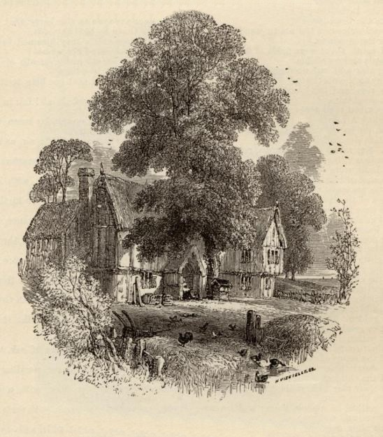 Myles Birket Foster ink on paper illustration from 'The Complete Poetical Works of Henry Wadsworth Longfellow with numerous illustrations.' Boston : Houghton, Mifflin and Company; James R. Osgood and Company, 1880. p. 80. This appears with the Longfellow poem "Evangeline: A Tale of Acadie."